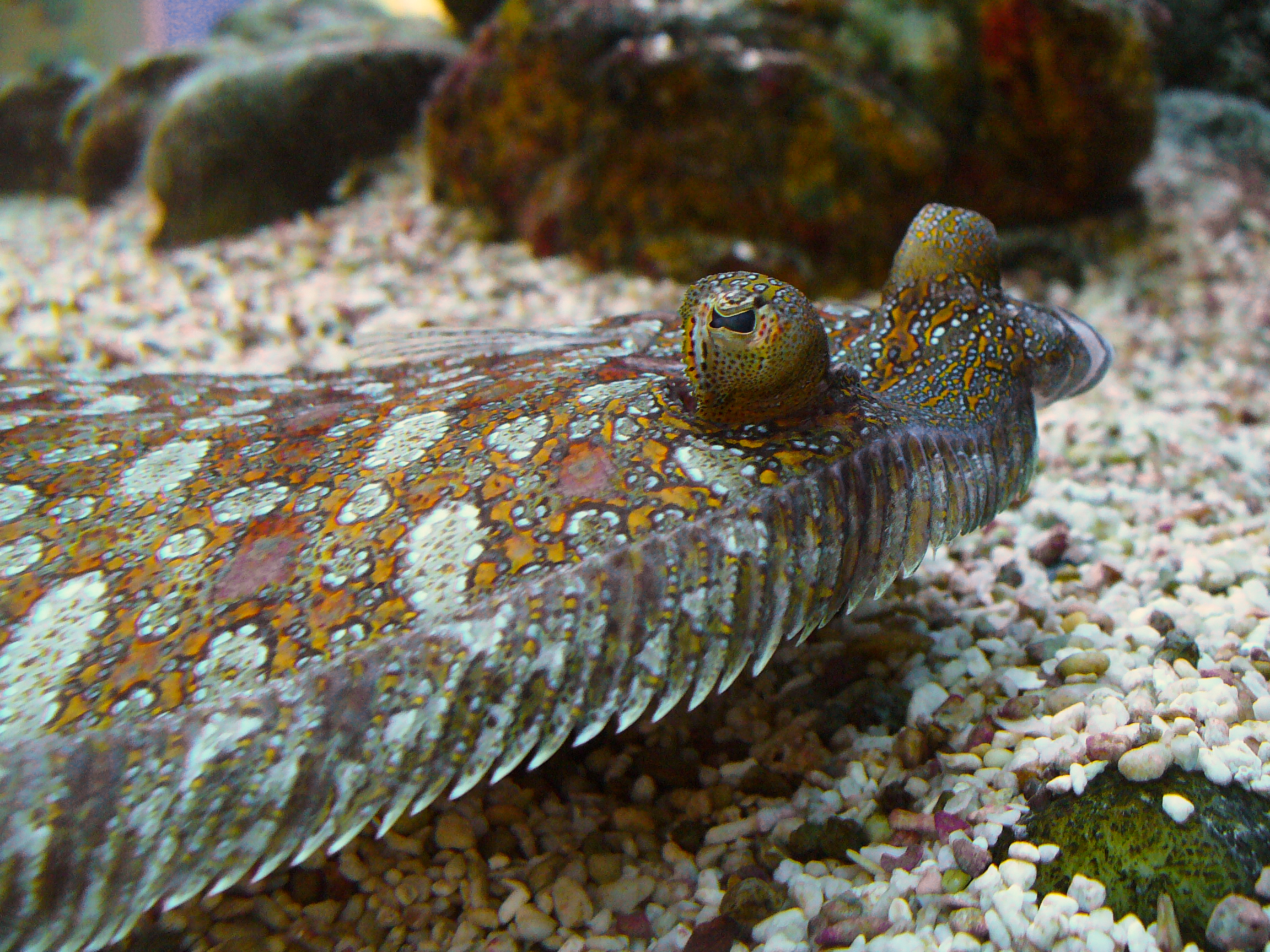 Bothus podas, Bothidae, Wide-eyed flounder; Staatliches Museum für Naturkunde Karlsruhe, Germany.